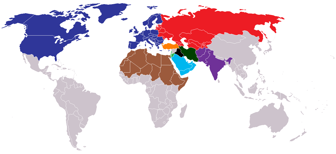 Quds Force Operations in 8 divisions